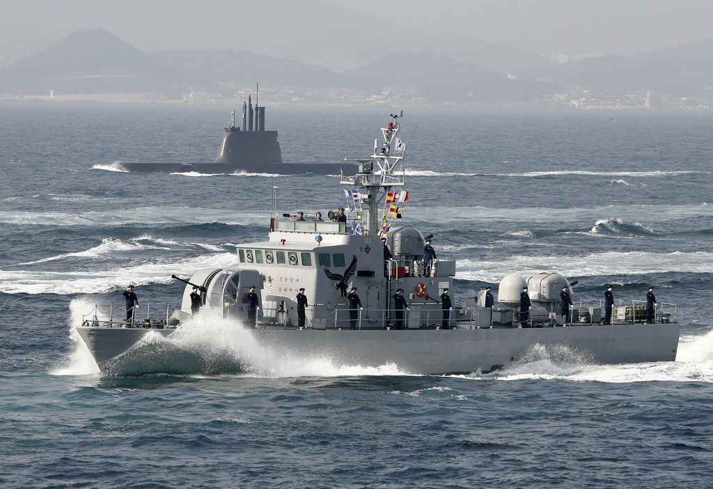 동해해상에서 실시한 한미연합해상훈련에 참가한 수상함정들 Rep. of Korea Navy Korea US Combine Training